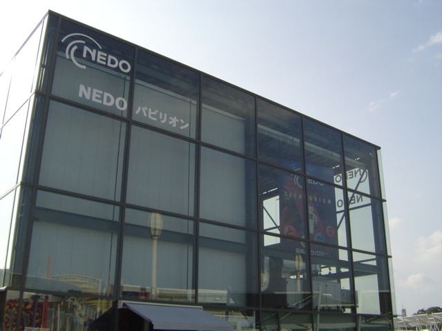 NEDO Pavilion in Nagakute Area of Expo 2005 Aichi Japan